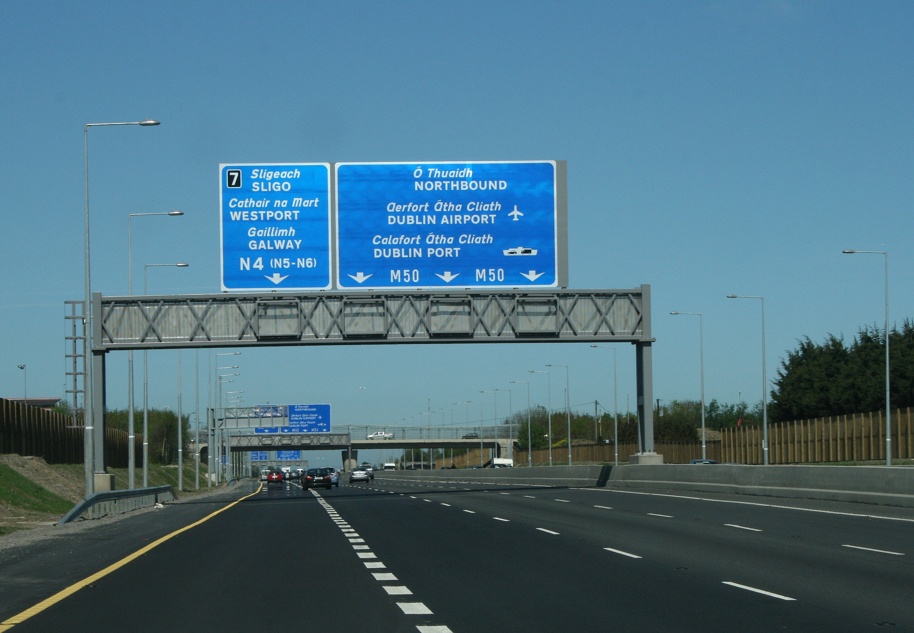 Gantry signage on the M50 motorway, Dublin, Ireland